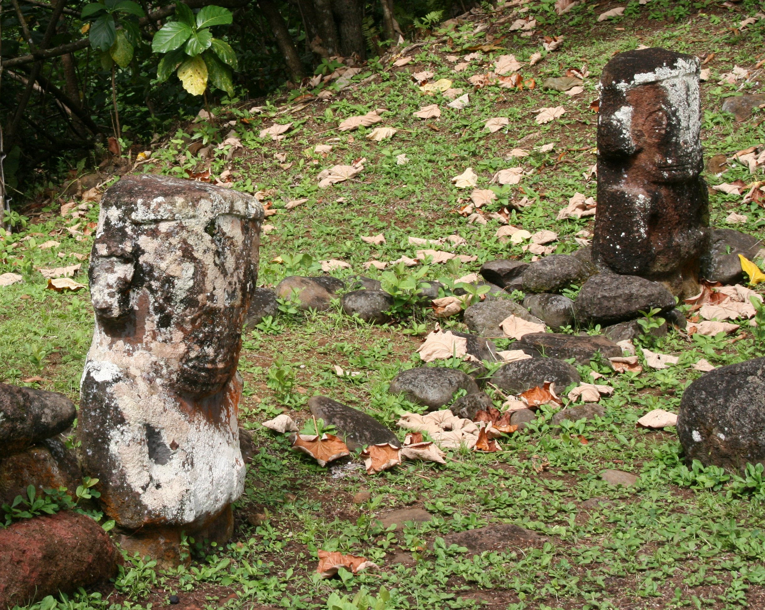 Red pumice tuff tikis, on the archeological site of Meiaute, island of Ua Huka, Marquesas Islands, French Polynesia.